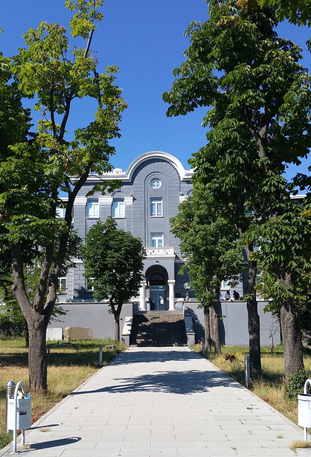 Akademija primijenjenih umjetnosti u Rijeci